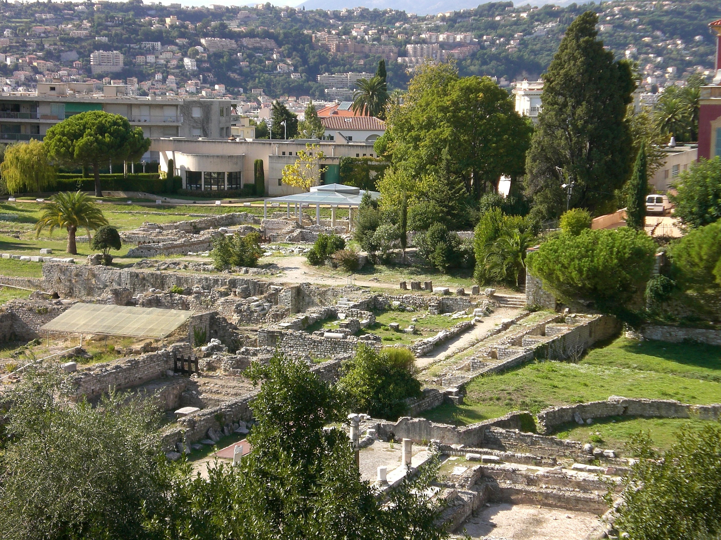 Decumanus of Cemenelum (Nice, France)